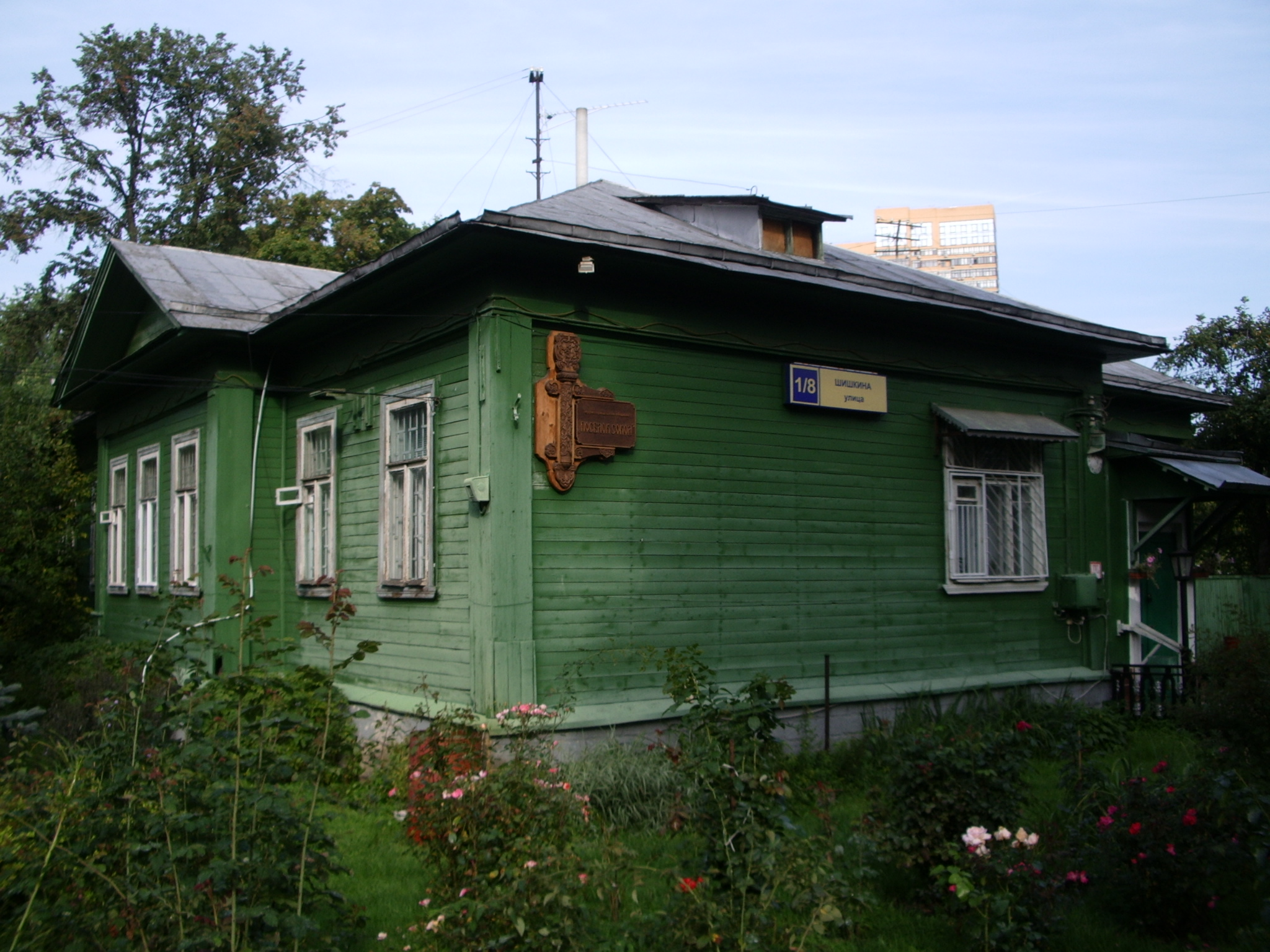 Shishkina street, 1. Sokol Settlement in Moscow.